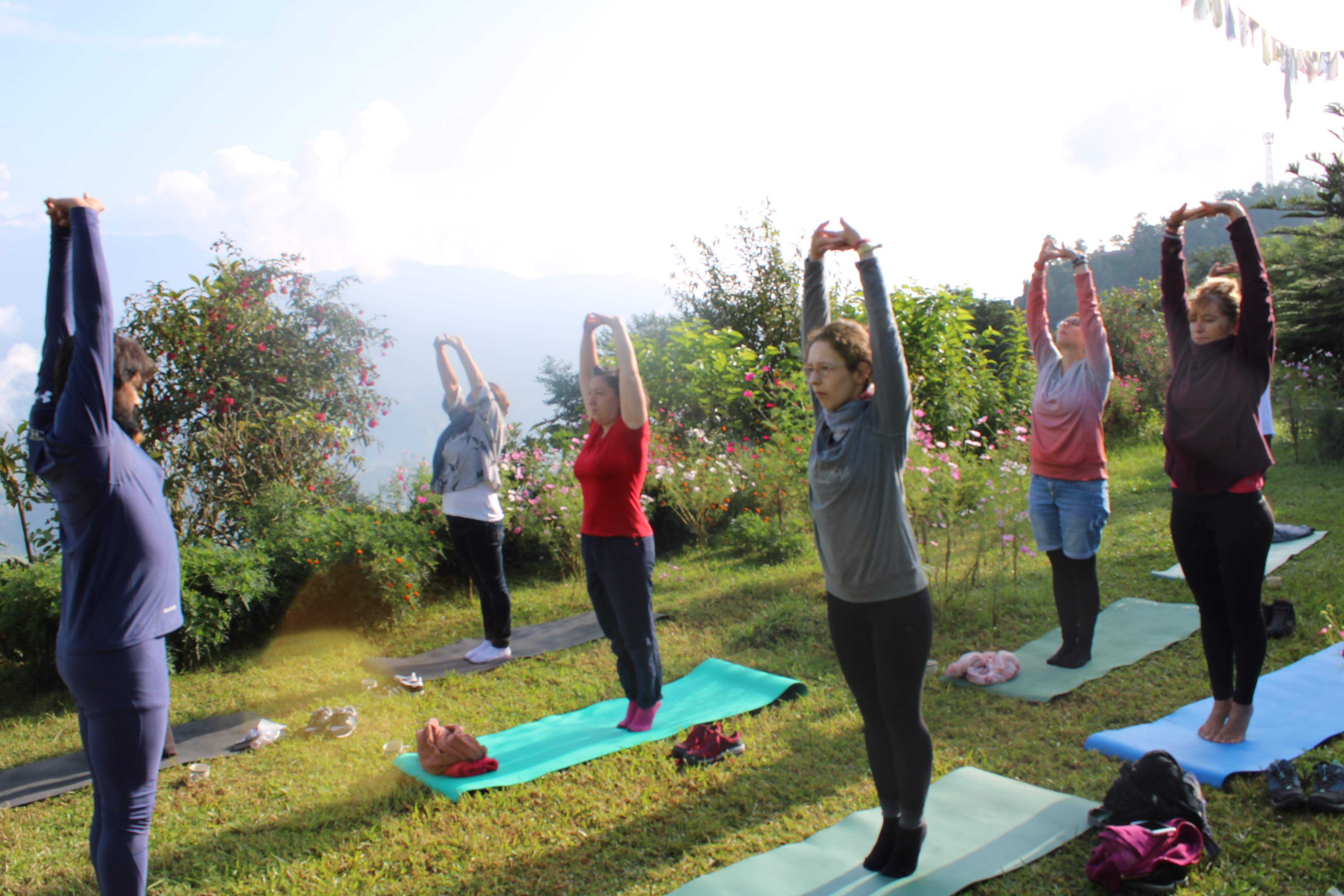 नेपाली: Tadasana(Plam Tree posture) in group Yogasana at Begnas Yoga & Retreat